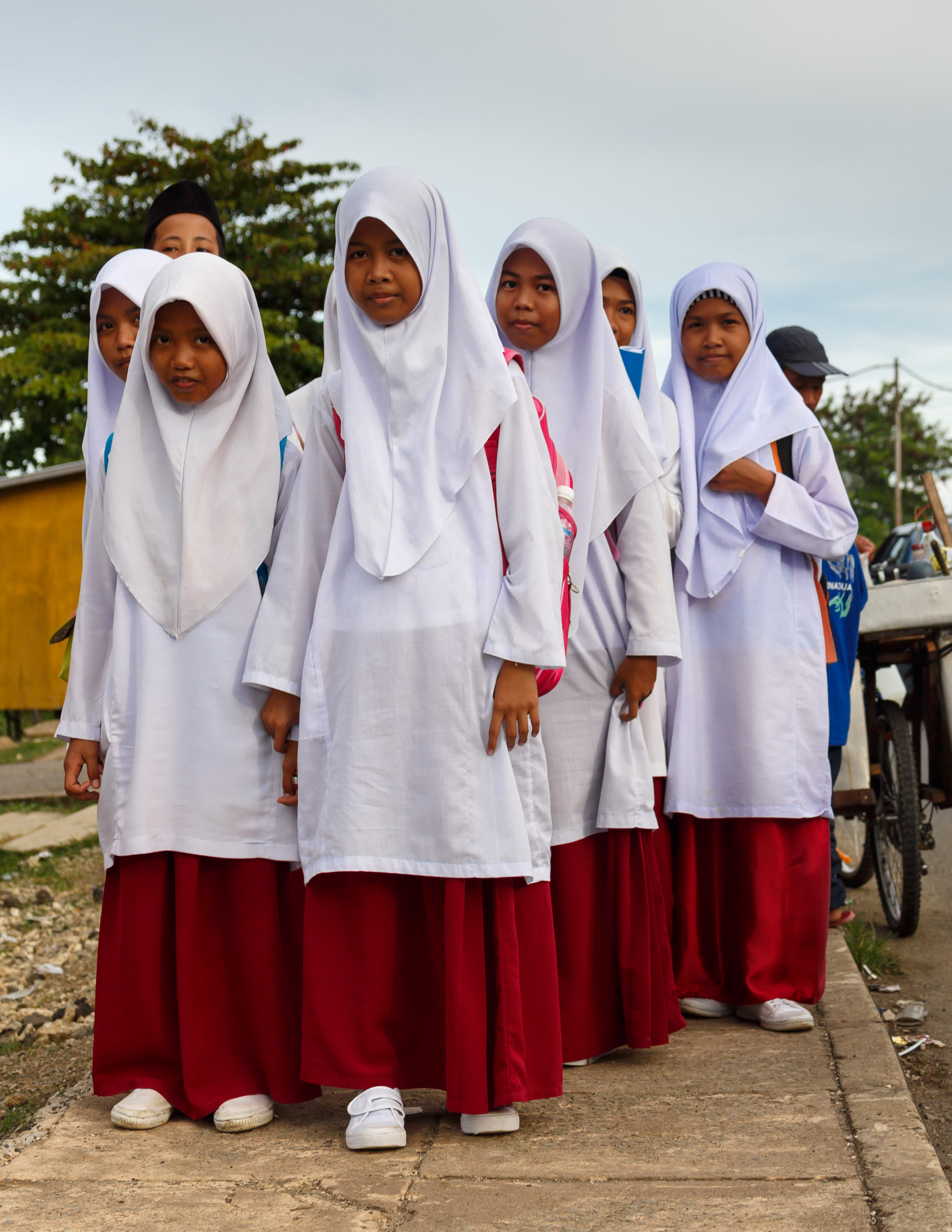 Semporna, Sabah: A group of school girls in school uniform with baju kurung and tudung at Kampung Simunul